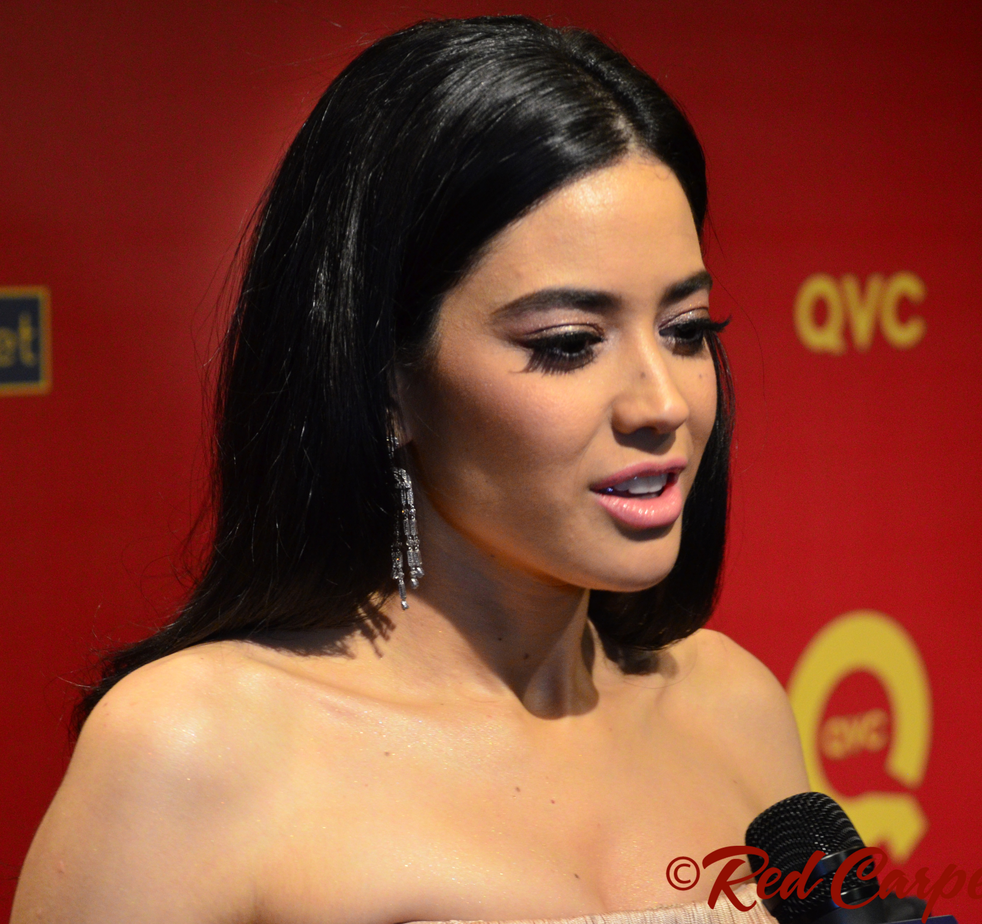 Edy Ganem of Devious Maids on Lifetime DSC_0660